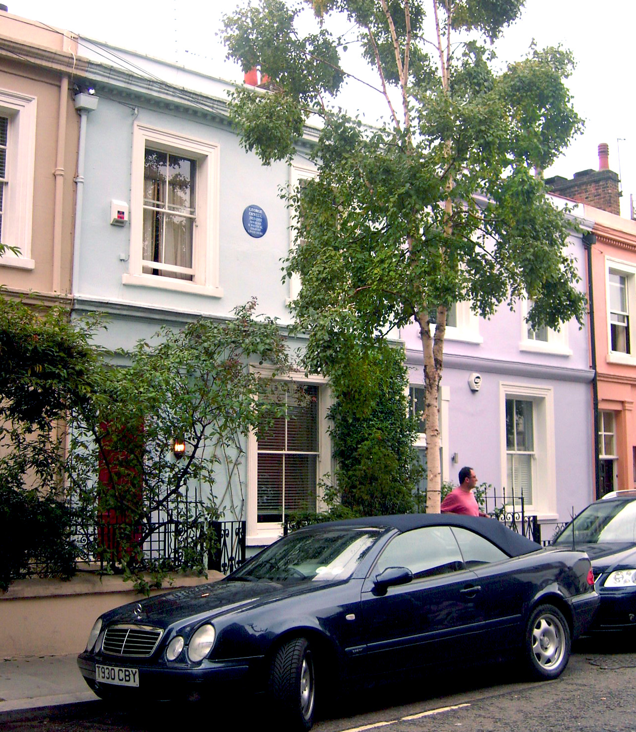 London - Portobello Road, George Orwell House.